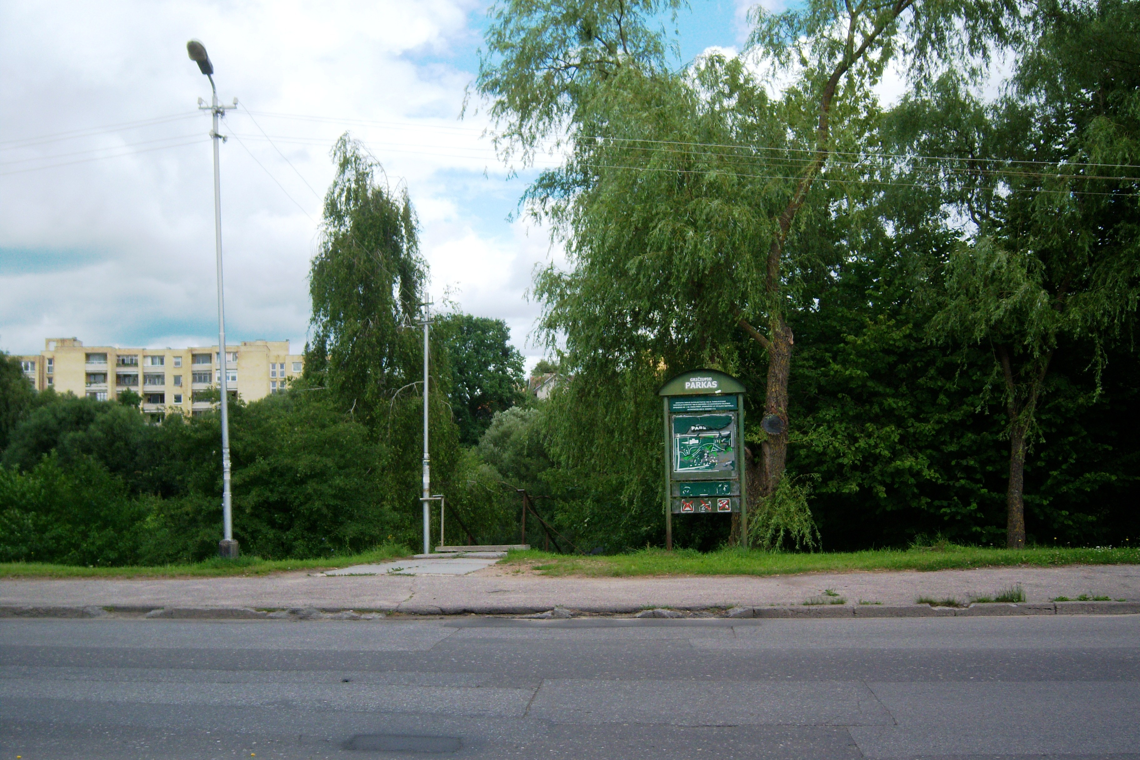 Gričiupio park, Kaunas, Lithuania